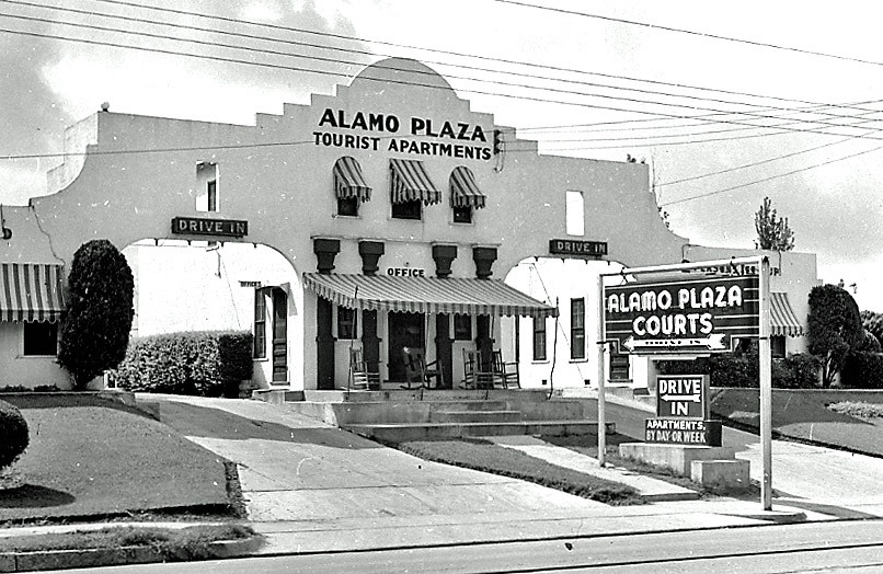 Waco Texas, 1939. "Alamo Plaza Courts Drive In Tourist Apartments". June 5, 1939. "Along toward supper time we came to Waco, one of the great little cities of America."